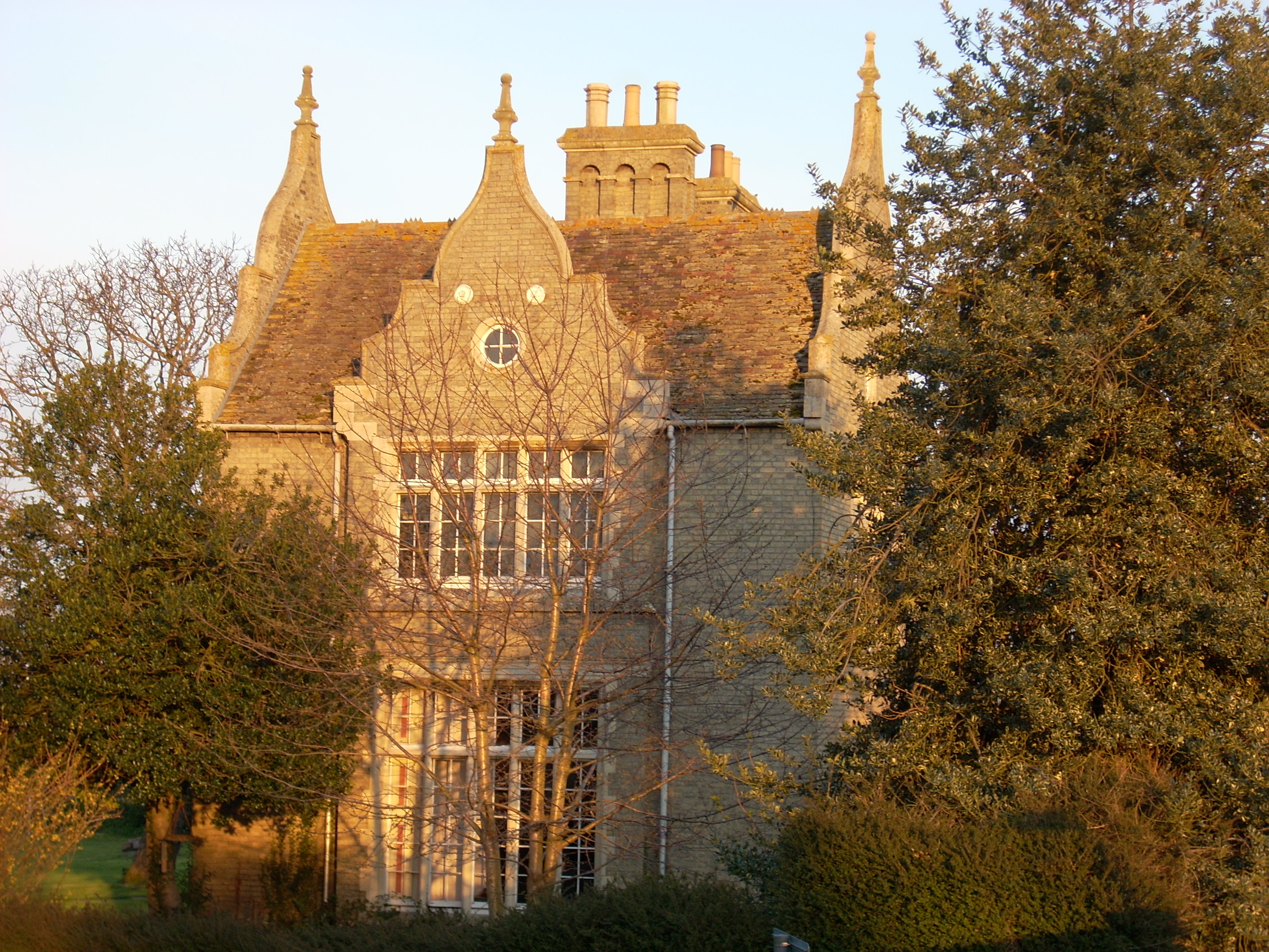 The Conservators' House, Clayhithe, Horningsea, Cambridgeshire